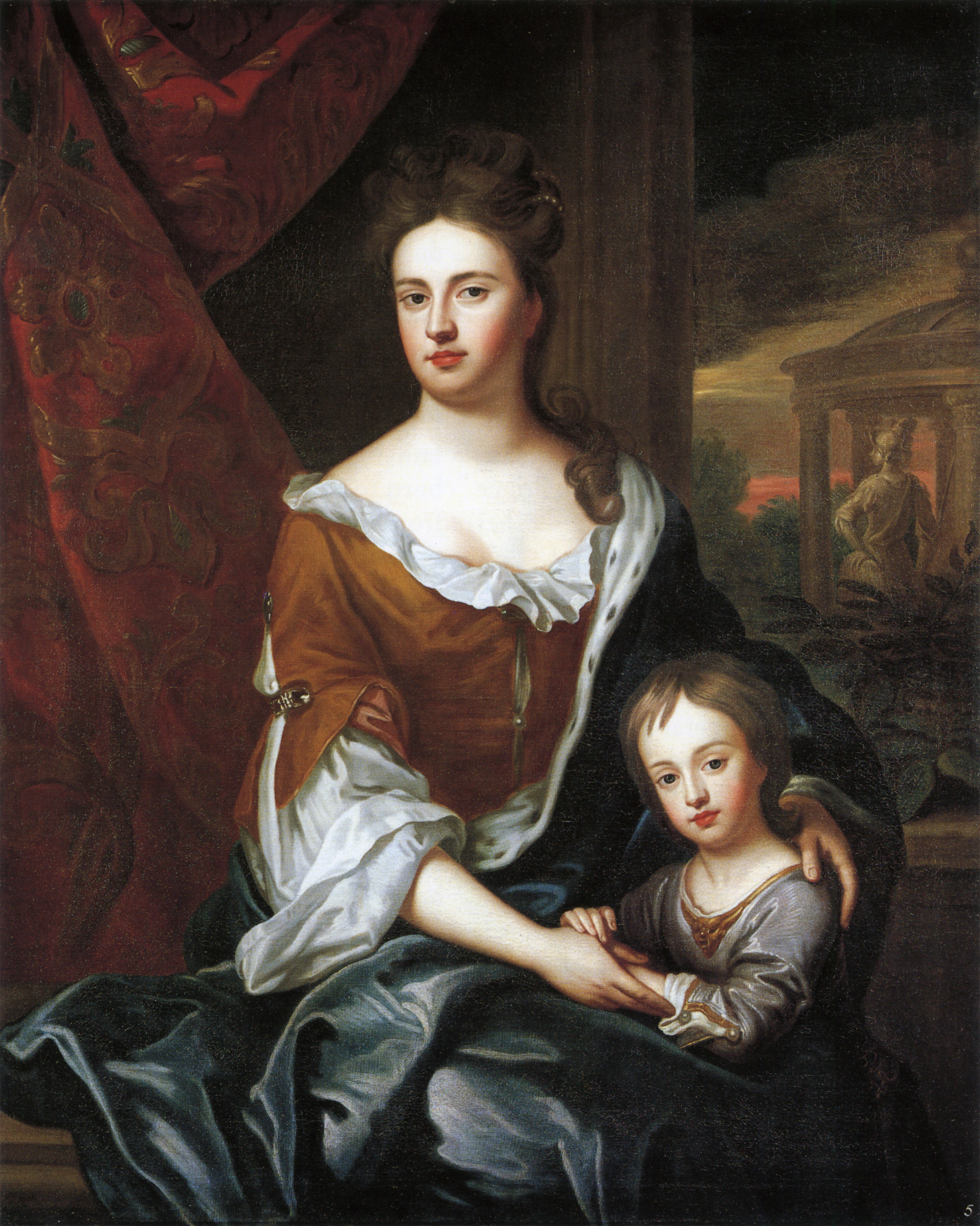 This image is a JPEG version of the original PNG image at File: Queen Anne and William, Duke of Gloucester by studio of Sir Godfrey Kneller.png. Generally, this JPEG version should be used when displaying the file from Commons, in order to reduce the file size of thumbnail images. However, any edits to the image should be based on the original PNG version in order to prevent generation loss, and both versions should be updated. Do not make edits based on this version. See here for more information. Queen Anne; William, Duke of Gloucester, studio of Sir Godfrey Kneller, Bt, circa 1694. National Portrait Gallery: NPG 5227 While Commons policy accepts the use of this media, one or more third parties have made copyright claims against Wikimedia Commons in relation to the work from which this is sourced or a purely mechanical reproduction thereof. This may be due to recognition of the "sweat of the brow" doctrine, allowing works to be eligible for protection through skill and labour, and not purely by originality as is the case in the United States (where this website is hosted). These claims may or may not be valid in all jurisdictions. As such, use of this image in the jurisdiction of the claimant or other countries may be regarded as copyright infringement. Please see Commons:When to use the PD-Art tag for more information.See User:Dcoetzee/NPG legal threat for original threat and National Portrait Gallery and Wikimedia Foundation copyright dispute for more information. This tag does not indicate the copyright status of the attached work. A normal copyright tag is still required. See Commons:Licensing.